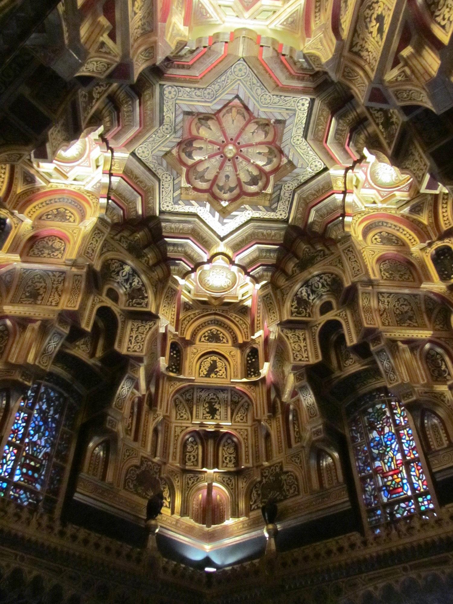 Ceiling of the Arab Room at Cardiff Castle